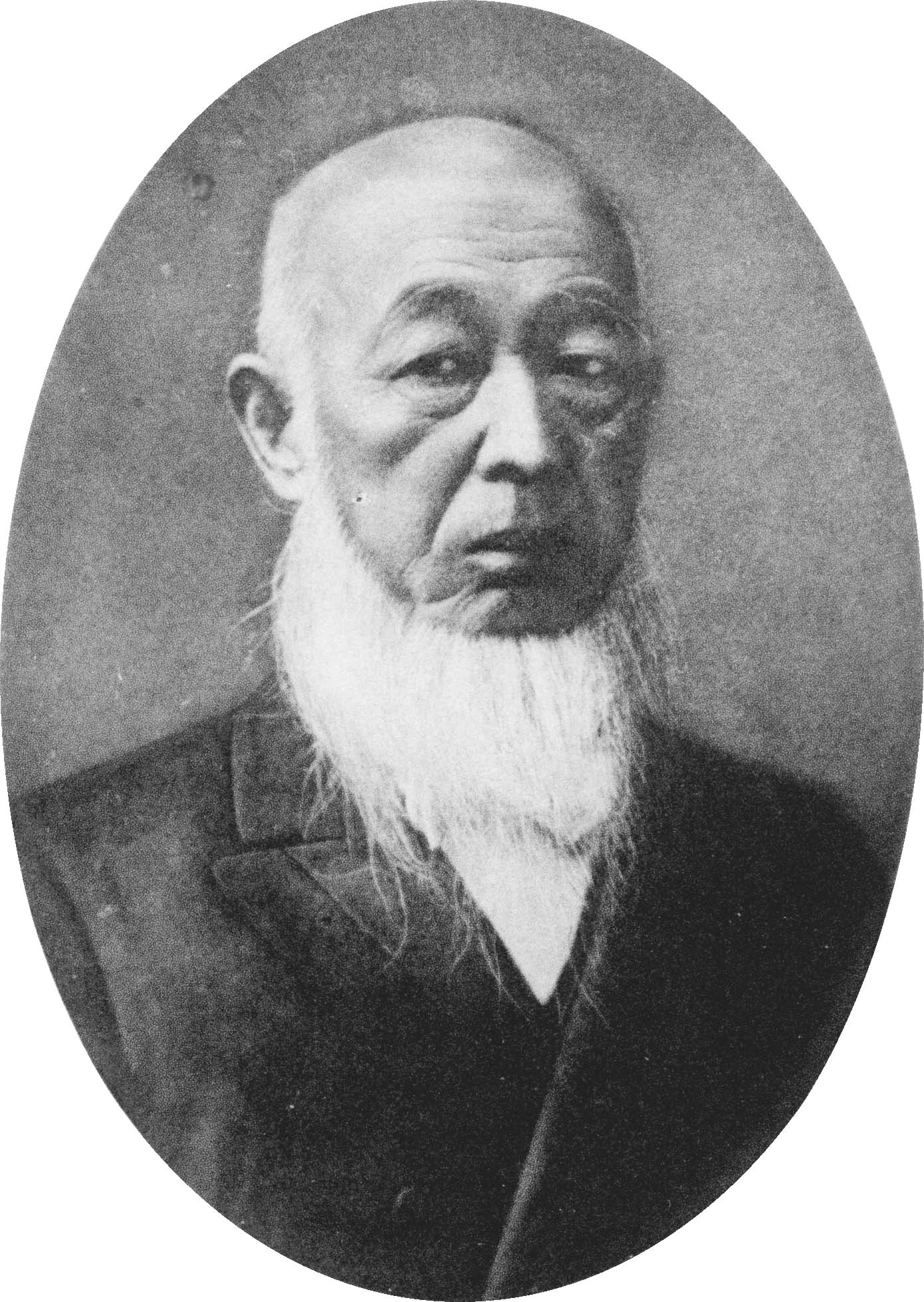 Ozawa Keijirō, teacher of the Tokyo Normal School.